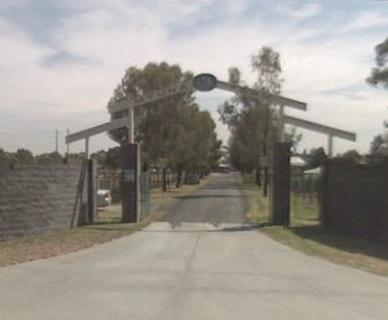 Myuna Farm gate on 14th April 2009 - Located in Doveton, Australia.